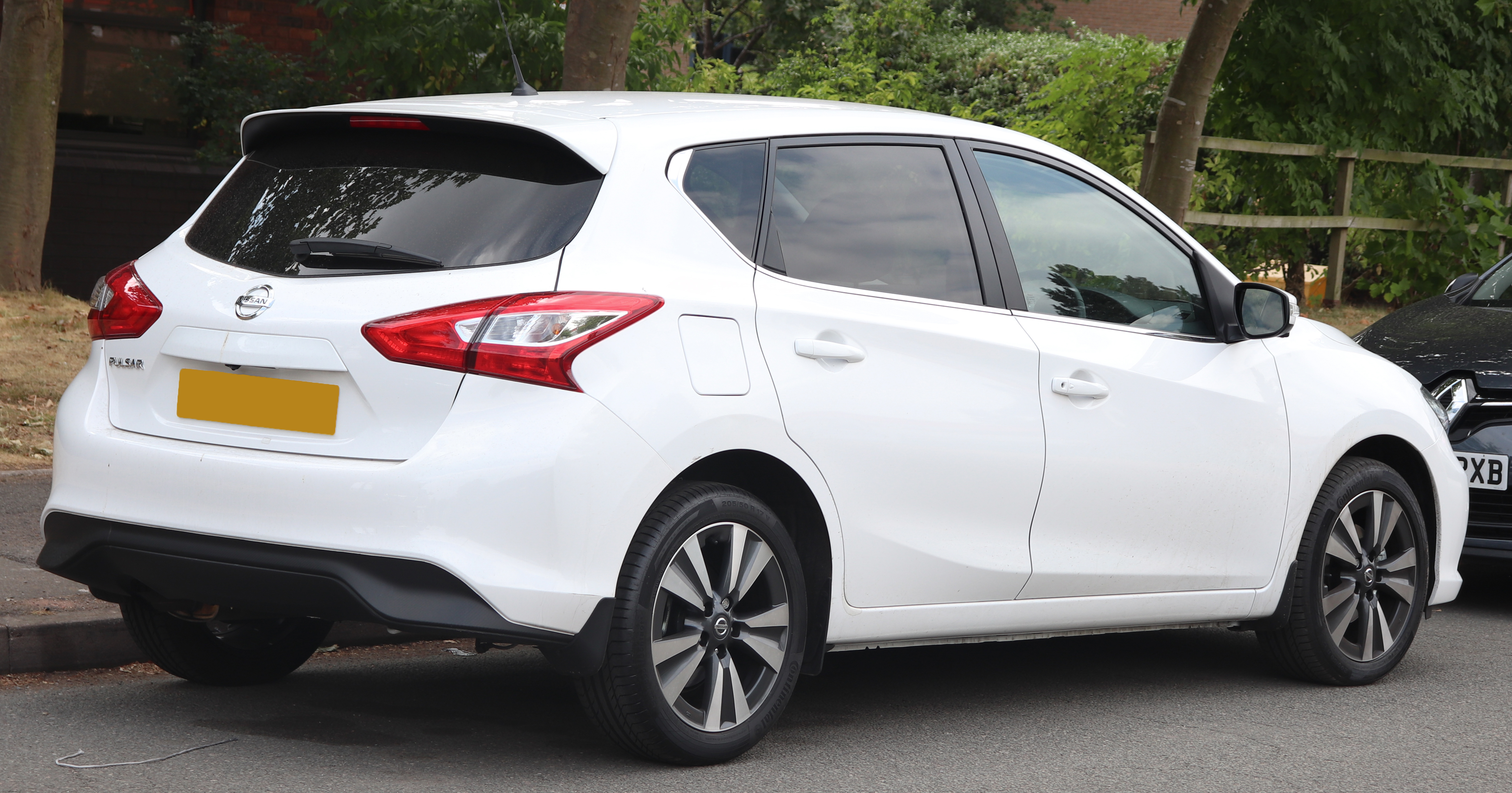 2018 Nissan Pulsar Tekna DIG-T CVT 1.2 Rear Taken in Leamington Spa